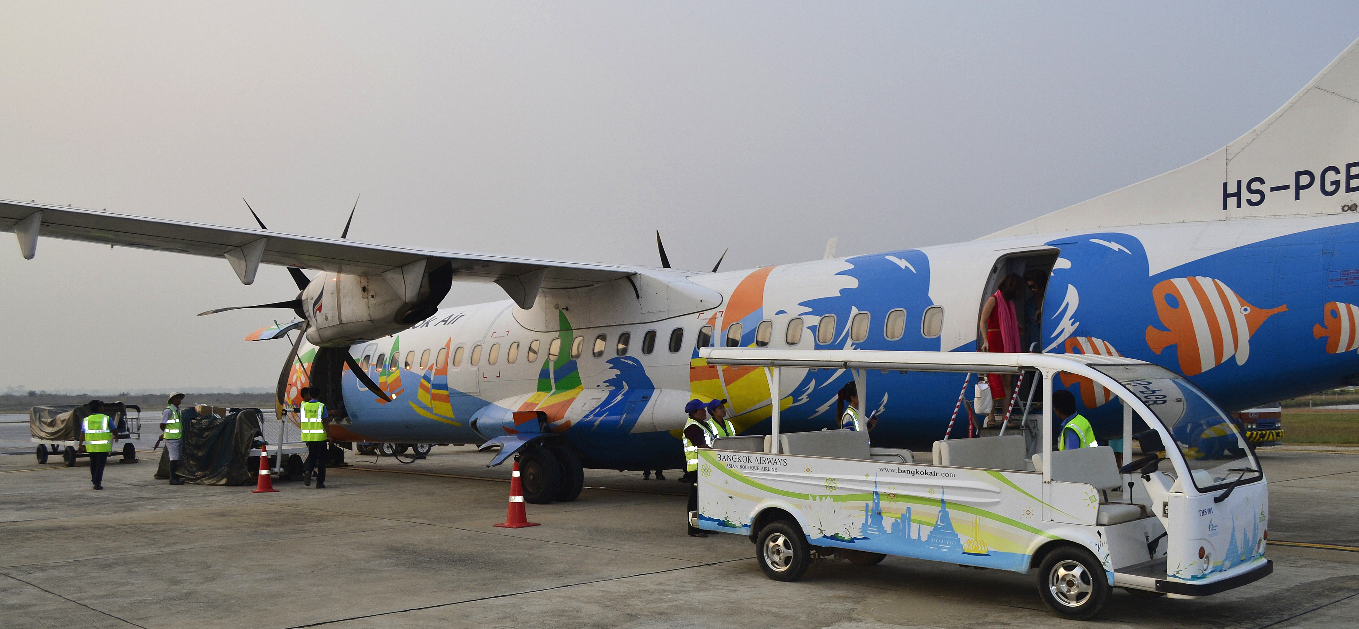 Bangkok Airways aircraft at Sukhothai Airport